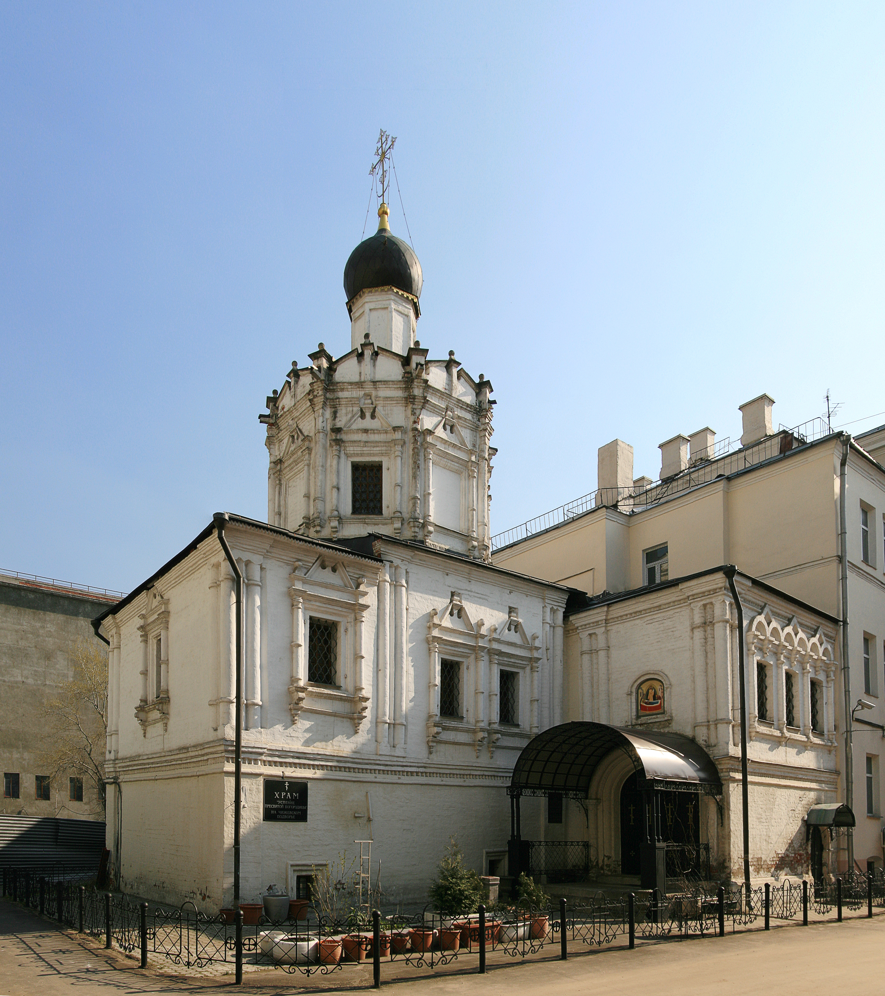 Church of the Dormition of the Theotokos in Chizhevsky Metochion, Nikolskaya street 8/1, Moscow